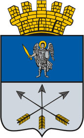 1852 coat of arms of Chyhyryn, Ukraine.